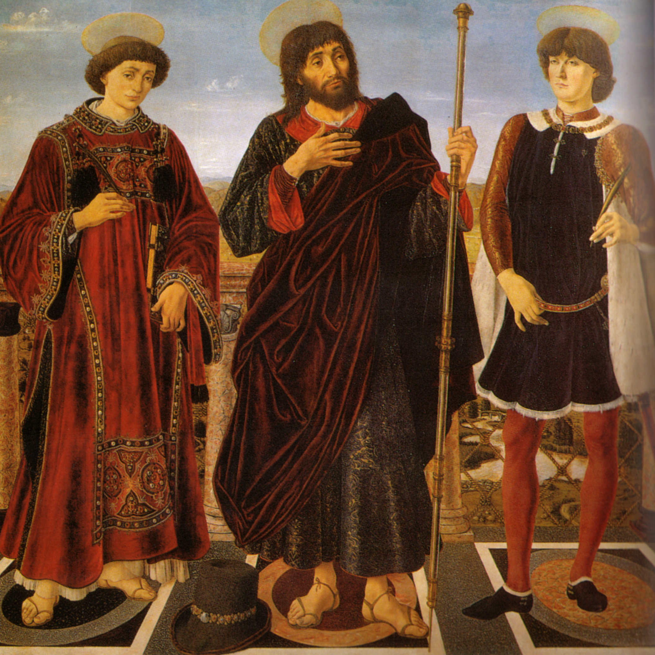 St Vincent, St James Major, St Eustace.